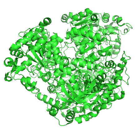 Atomic coordinates of 3HZZ rendered with PyMOL